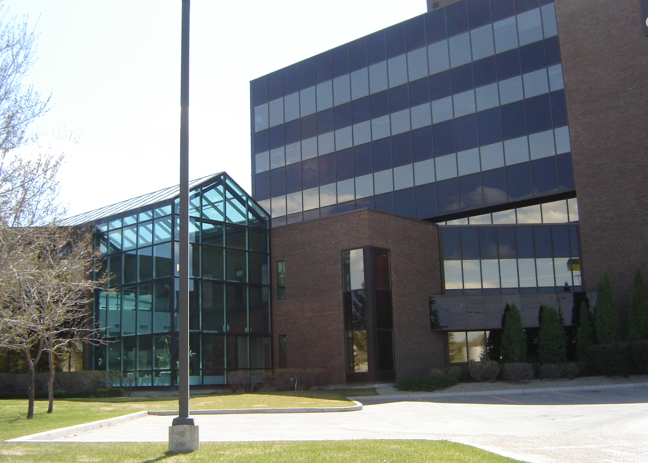 Cameco Corporation --- Uranium - Fuel - Electricity - Mining ...South West Industrial Saskatoon, Saskatchewan, Canada